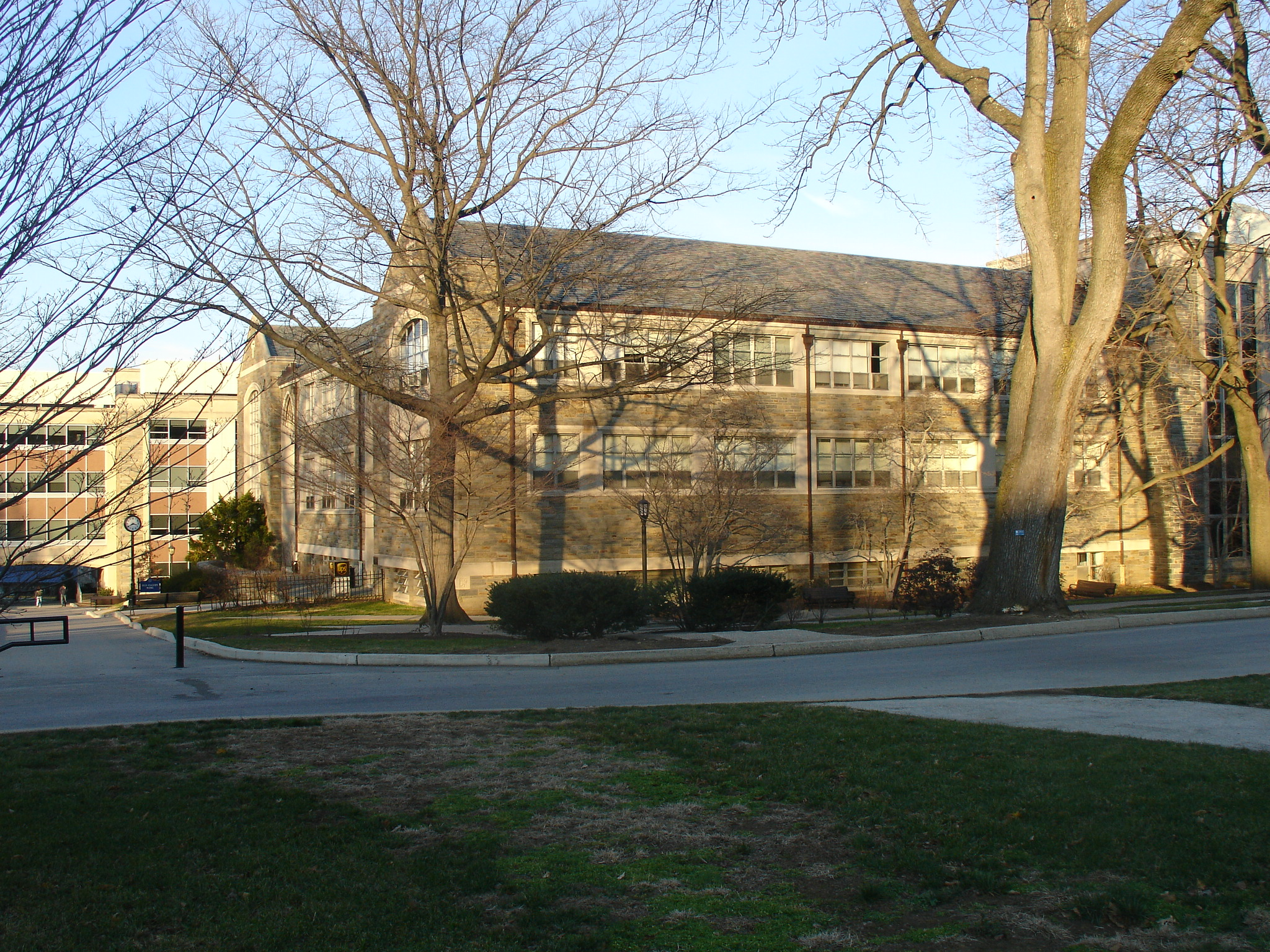 The Old Falvey library building at Villanova University, Villanova, Pennsylvania, USA. Taken by submitter 19 Dec 2006.